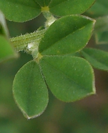 Please report references to .